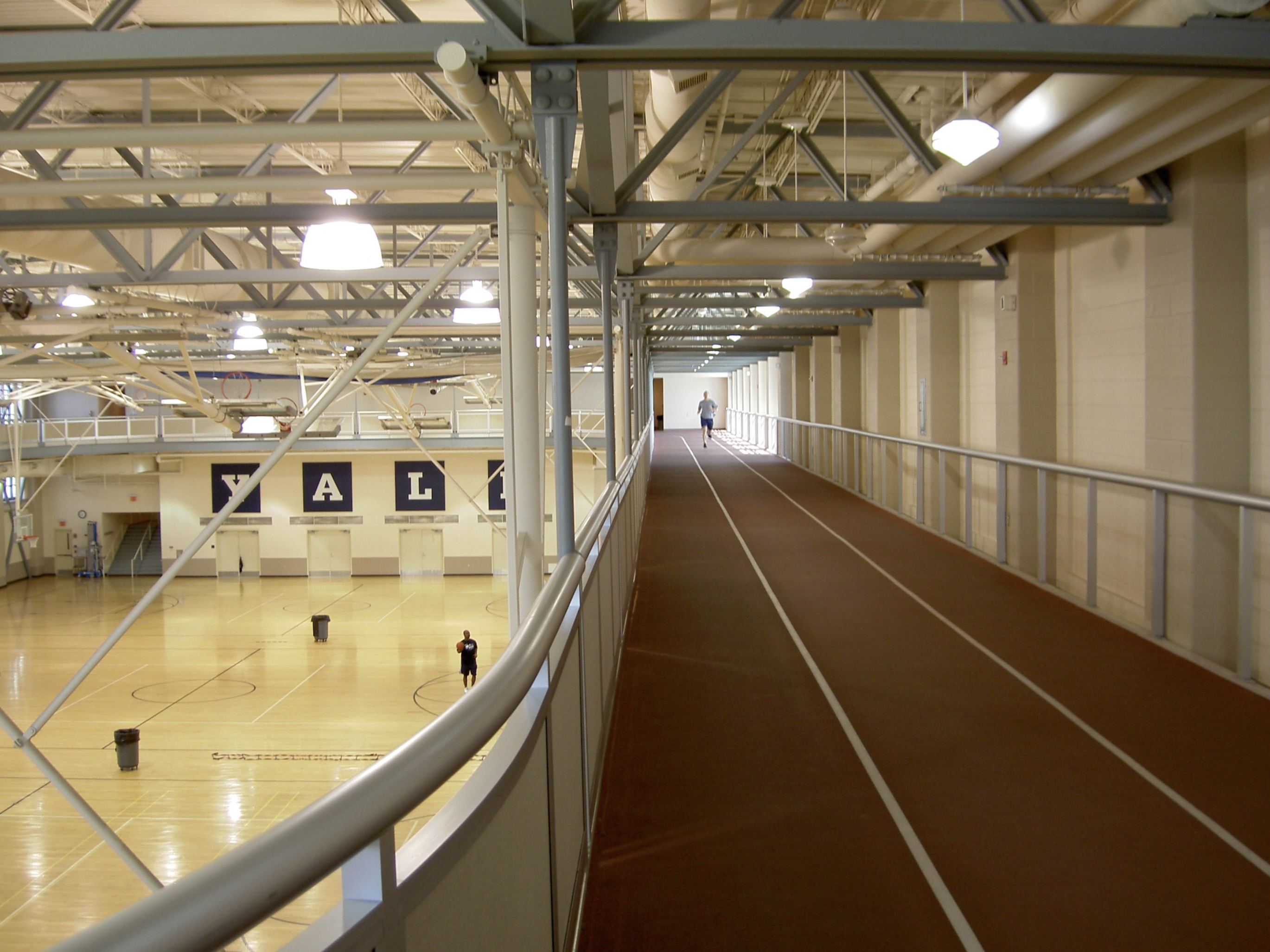 The Lanman Center in Payne Whitney Gymnasium at Yale University. Picture by Henry Trotter, 2005.